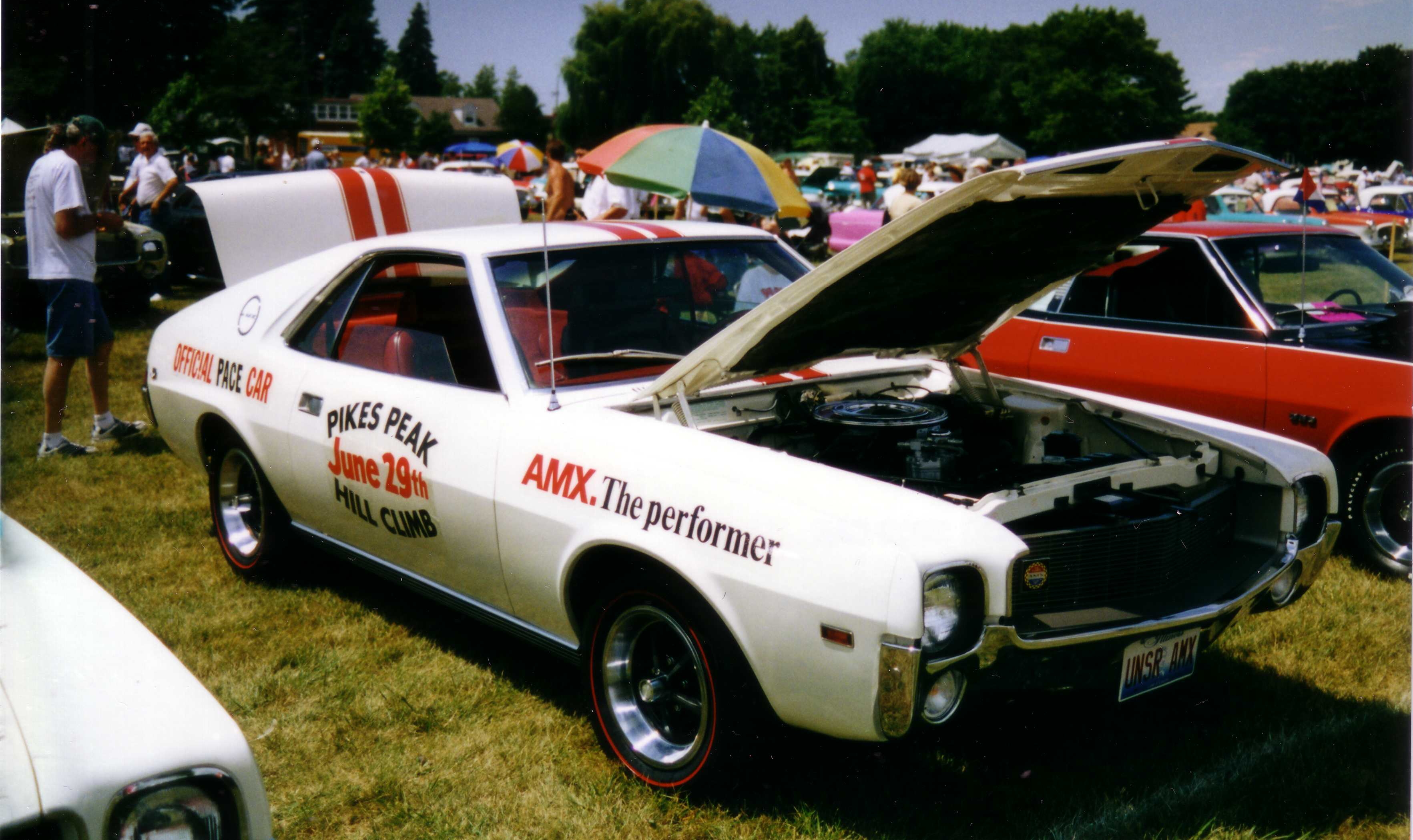 1969 AMX by AMC (American Motors Corporation). This is one of the official pace cars used in the Pikes Peak race on 29 June 1969. There were 12 (perhaps only 10 according to some sources) of these AMX Pace and Courtesy cars that were used to practice by racers the week prior to the race up the mountain. All had the 390 "Go-Pac" option and were finished in white with red stripes and red interiors. Picture was taken at the AMC show in Kenosha, Wisconsin.